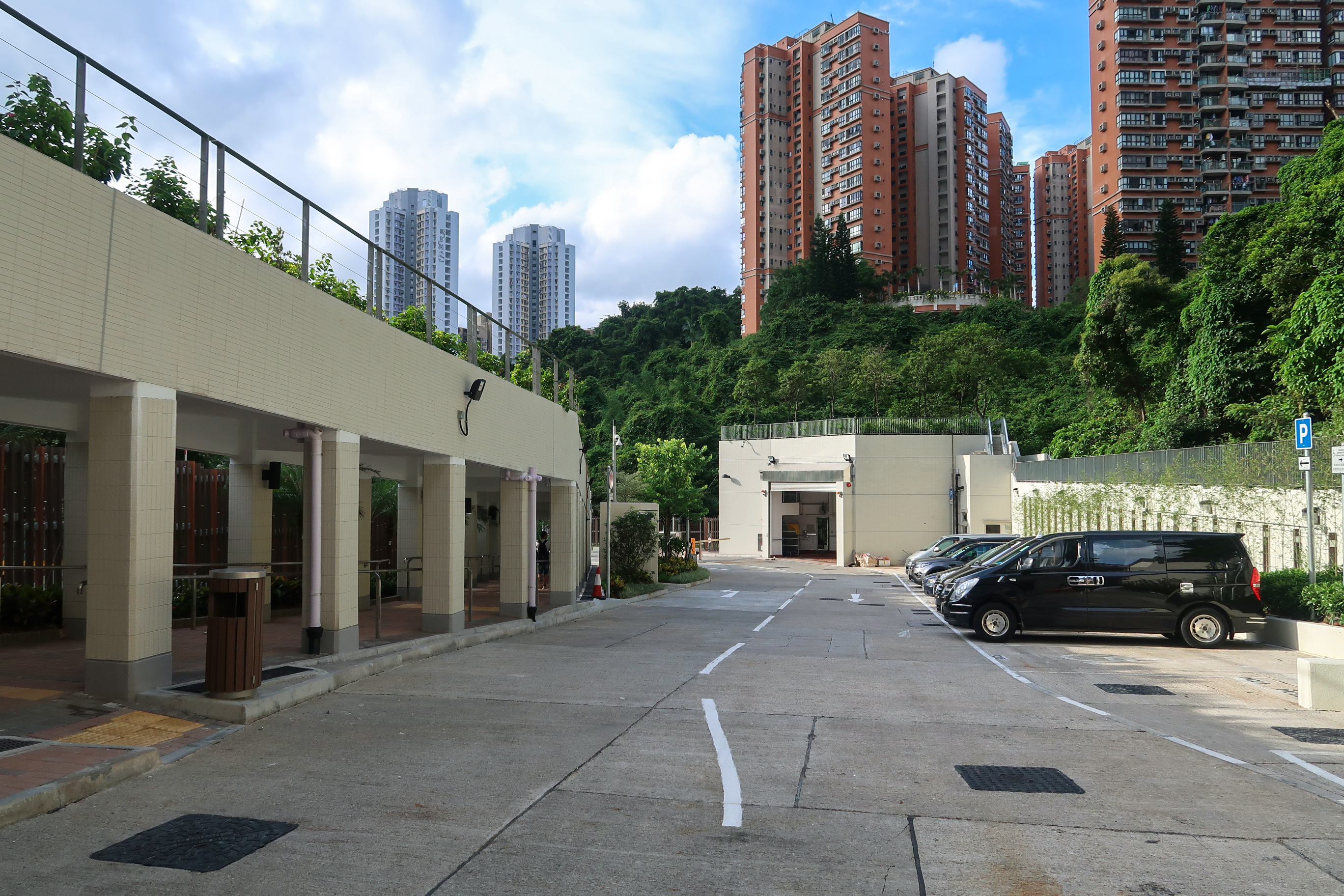 Ka Shun Court